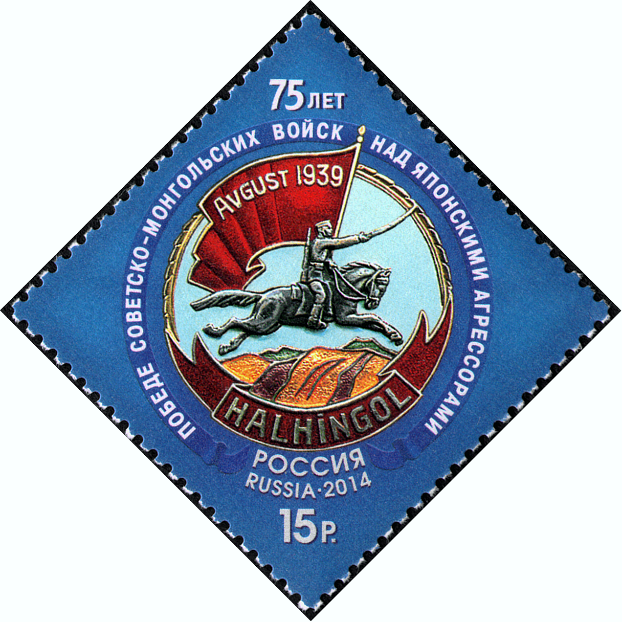 75th anniversary of the victory of the Soviet and Mongolian forces over the Japan aggressors. The Mongolian medal „Khalkhin Gol“ (estabilished in 1939). The stamp of Russia, 15.00 Rubles, 28 August 2014, PTC Marka Catalogue No 1867. Coated paper. Offset printing. Perforation: comb 11½ ×11½. Size of the stamp: 37×37 mm. Print run: 279,000.